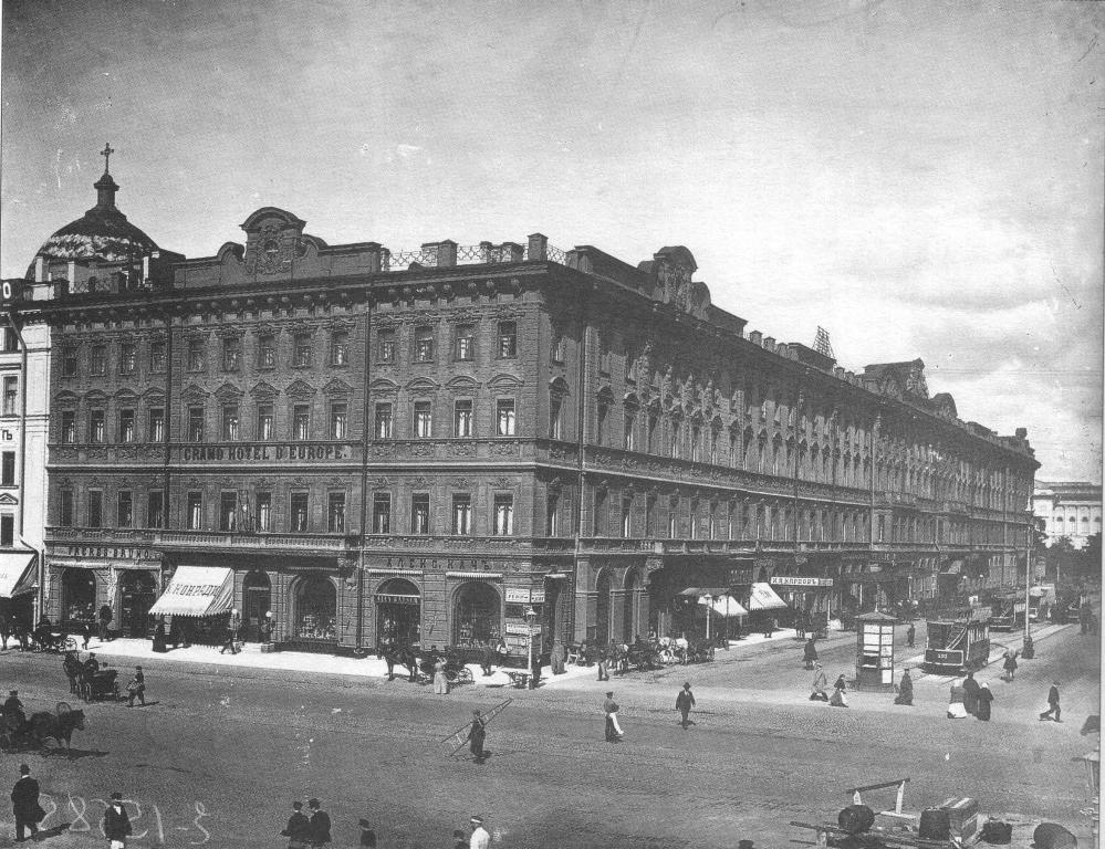 Horsetram end stop near European hotel on Mikhailovskaya street